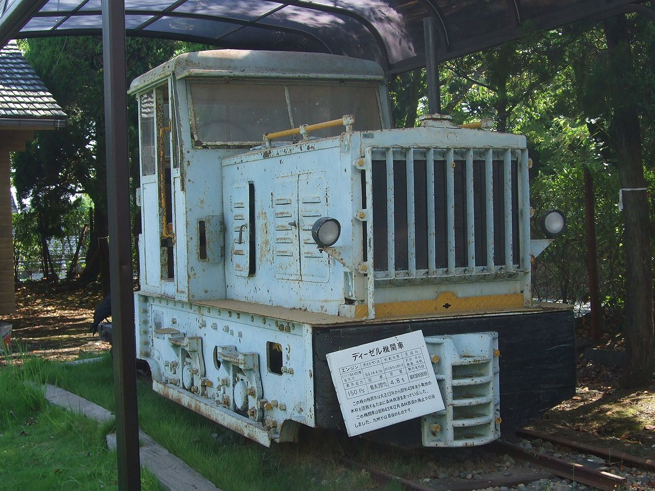 A diesel locomotive formerly used on the Naidaijin Forest Railway in Kumamoto, Japan. The locomotive was built by Tosa Zosen in 1961, and weighs 4.8 tonnes. It is preserved at the Kenmotsudai Botanical Gardens in Chuo Ward, Kumamoto City, Kumamoto Prefecture, Japan.